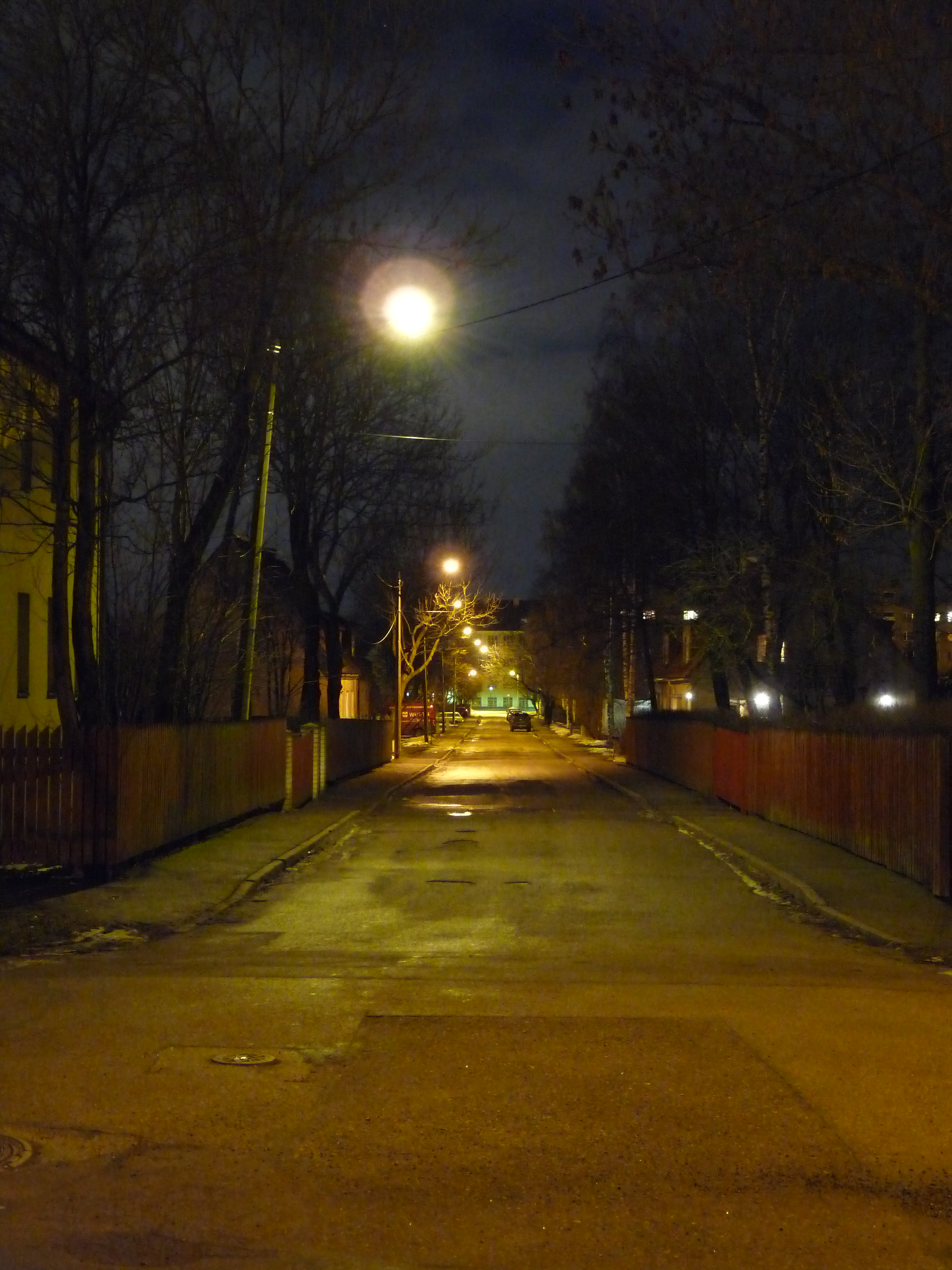 Kõrre street in Tallinn, Estonia